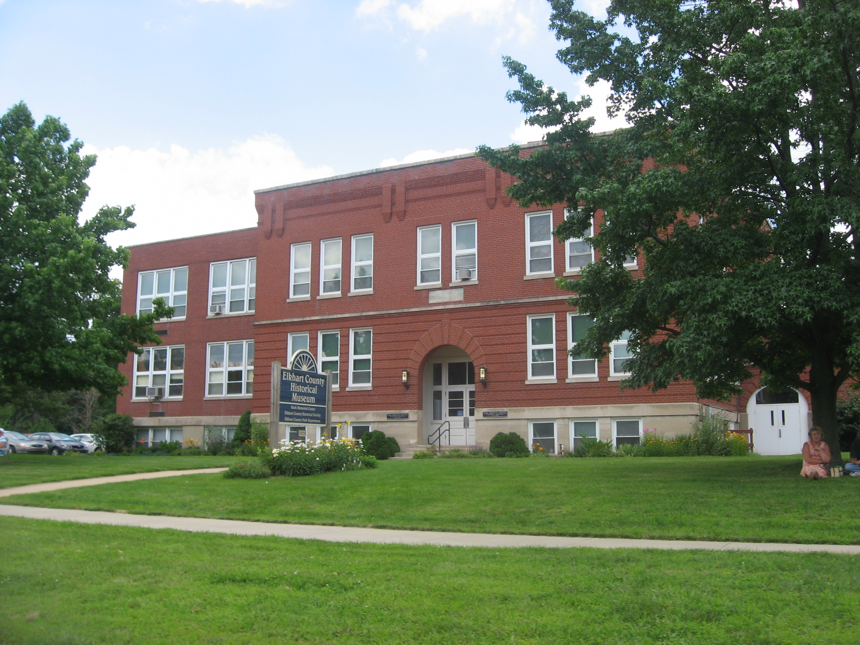 Front of the Bristol-Washington Township School — formerly the Bristol High School, and now the Elkhart County Historical Museum — located at 304 W. Vistula Street (State Road 120) in Bristol, Indiana, United States. Built in 1904, it is listed on the National Register of Historic Places.